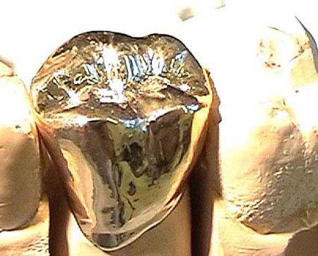 Zahnkrone, Gold - dental crown - denture